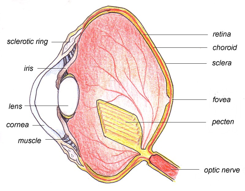 Schematic diagram of a bird's eye